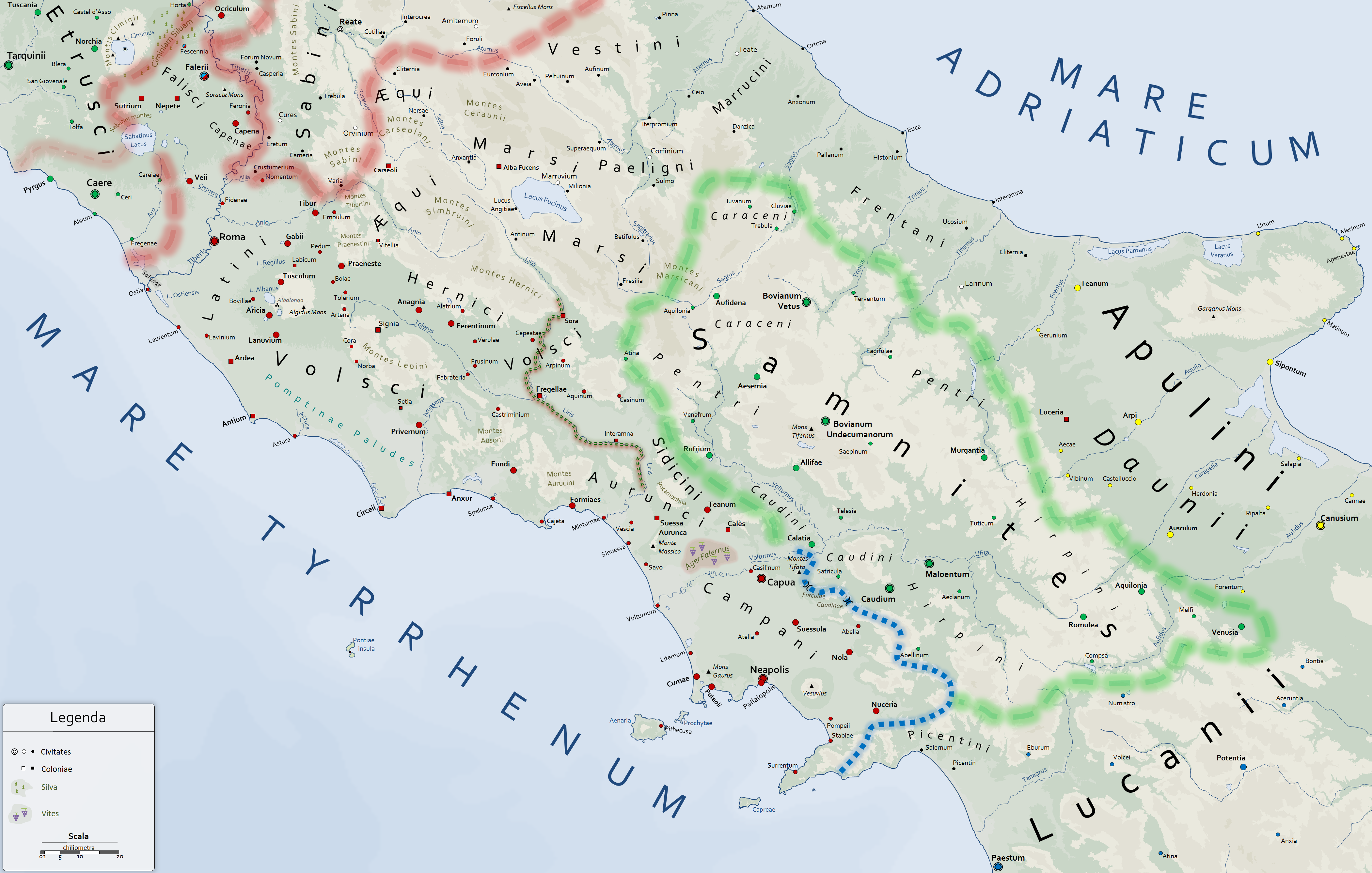 See Troisième guerre samnite#Contexte for the full legend/caption of the map.